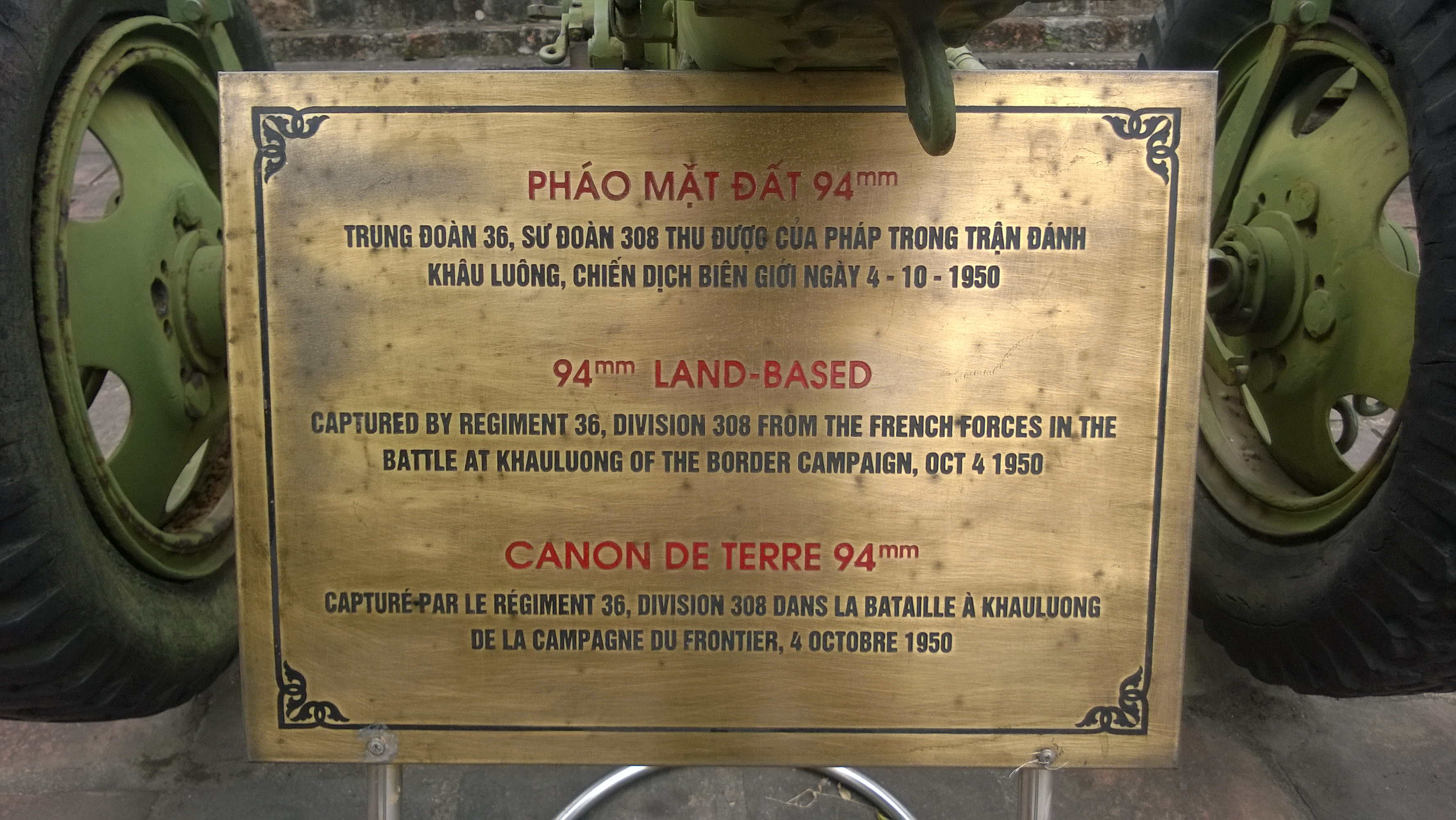 The Vietnam Military History Museum in the city of Hanoi in 2014.